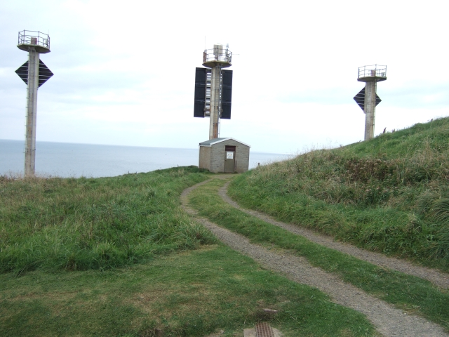 West Blockhouse Beacon on St Ann's Head At the site, the beacon is described as Block House (two words) but the OS map has one word. Curious; maybe there should be a section of Geograph devoted to alternative placenames